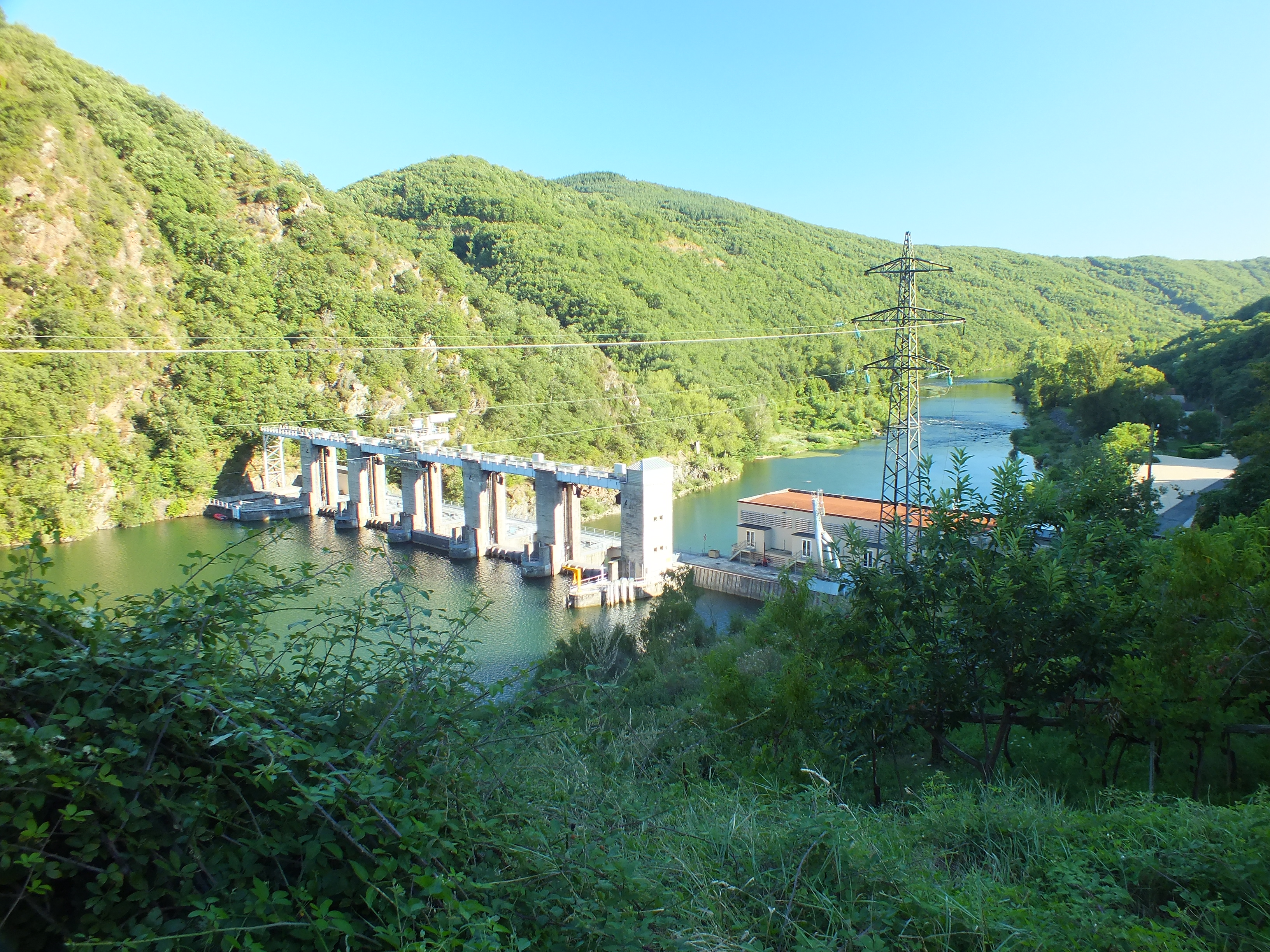 The La Jourdanie (power station) is on the River Tarn near 12370 Broquiès in Aveyron. Two Kaplan turbines and two helical turbines generate 18MW. The dam is 145m long and 17m high.